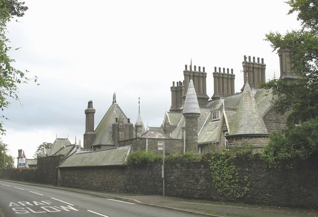 Plas Rhianfa - Yours for a mere £3.25 million This newly restored chateau, used as holiday accommodation until recently, is now on the market. It comes with its own bus stop.